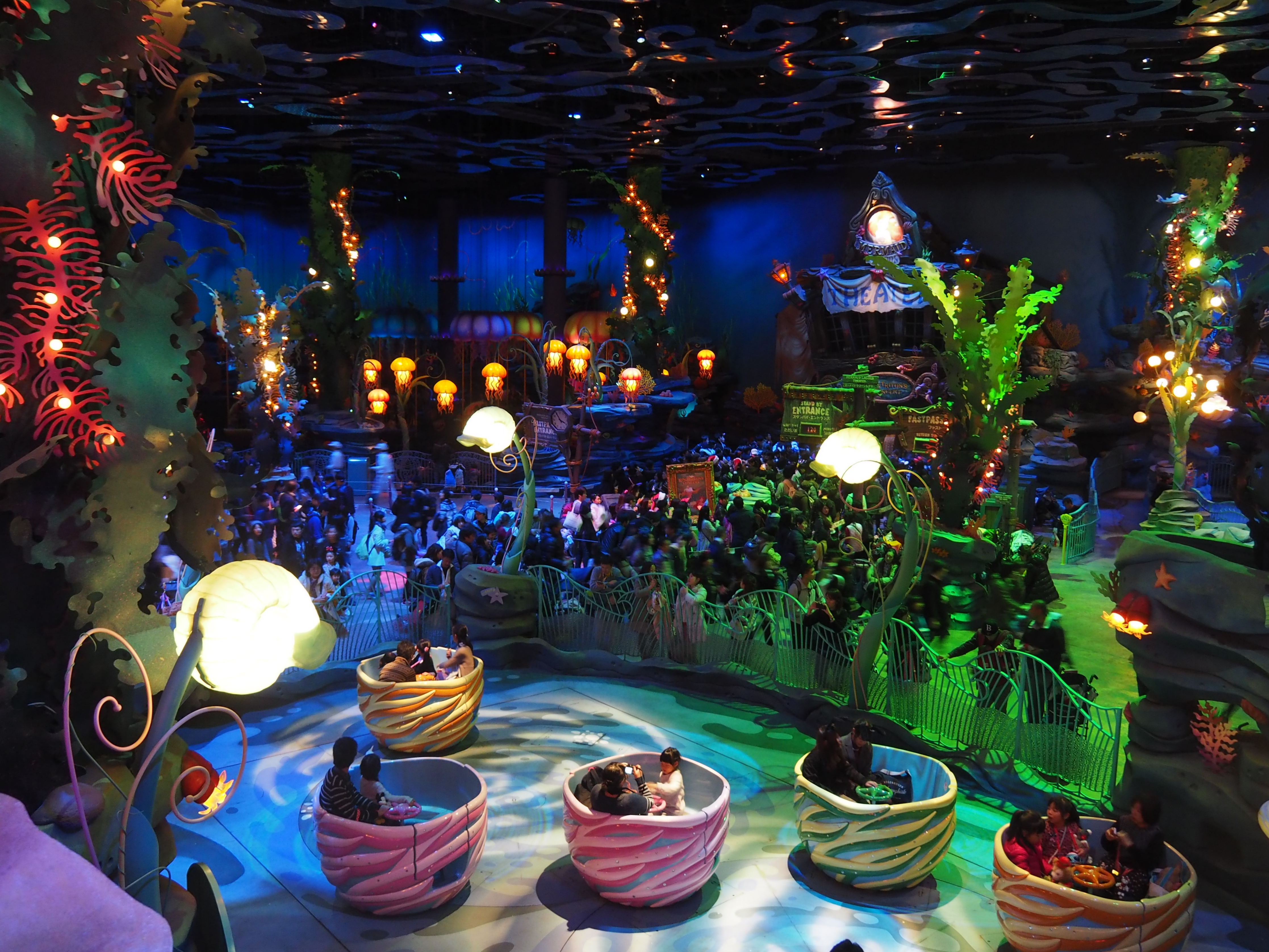 Tokyo DisneySea